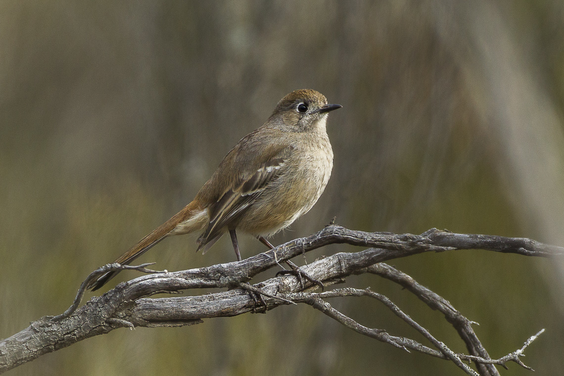 Southern Scrub-Robin - Little Desert NP - Victoria_S4E4274